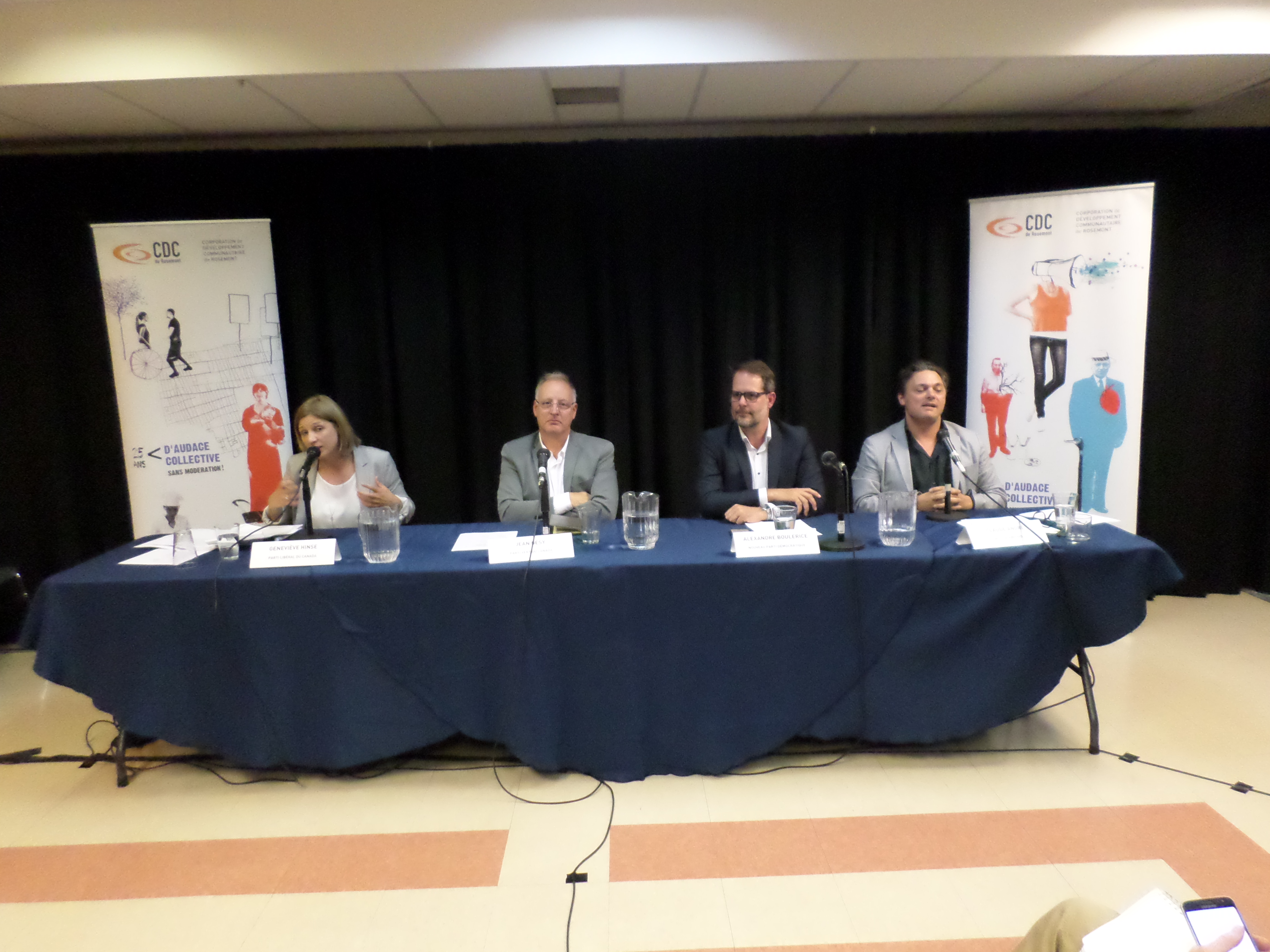 Debate between 2019 Federal elections candidates at Rosemont. From R to L: Geneviève Hinse (LPC), Jean Désy (GP), Alexandre Boulerice (NPD) and Claude André (BQ)